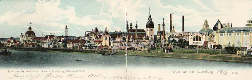 t